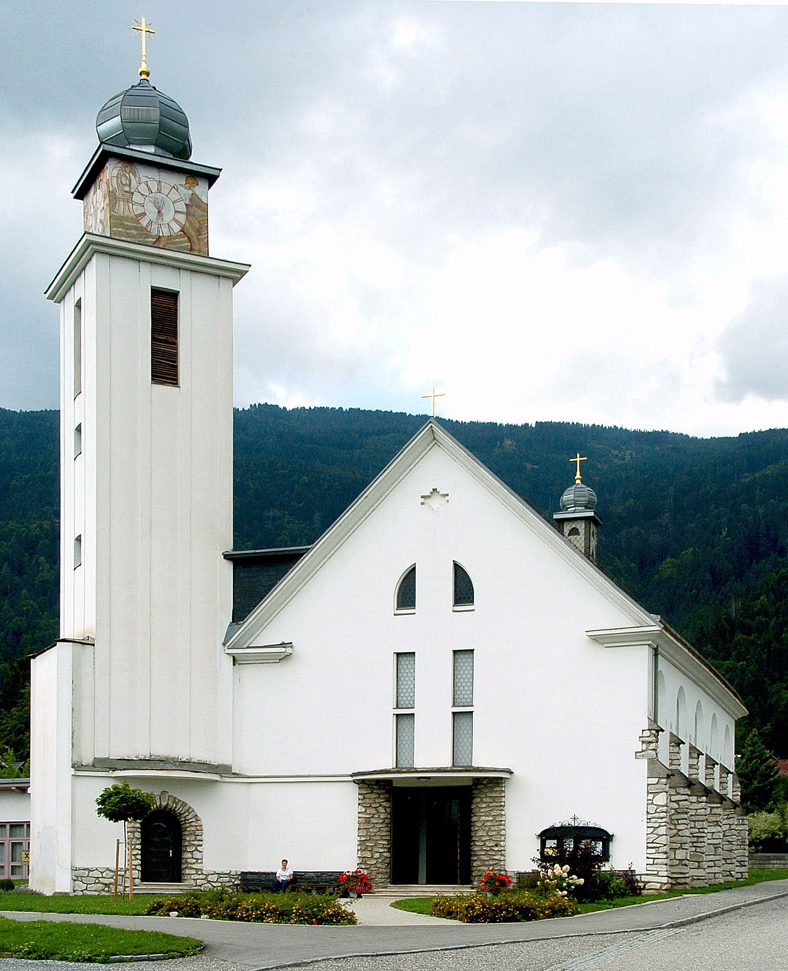 Parish church Saint Joseph in Bodensdorf, municipality Steindorf am Ossiachersee, district Feldkirchen, Carinthia, Austria, EU